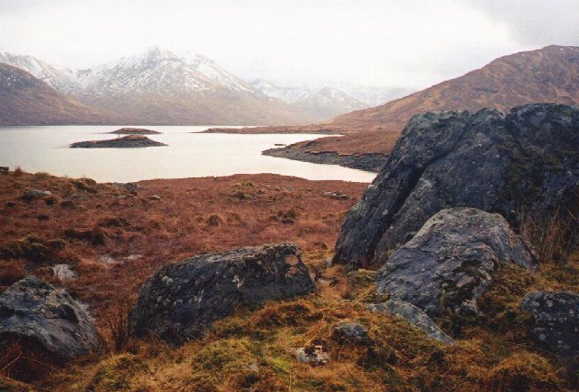 Loch Quoich looking south west to Sgurr Mòr in the distance.